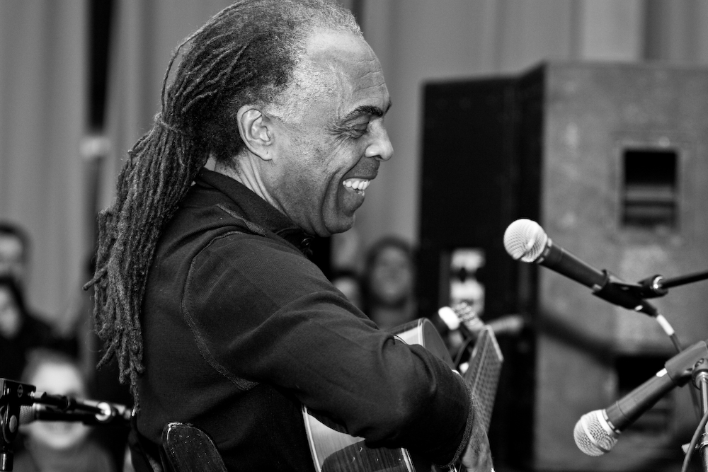 Musician Gilberto Gil with his guitar at a performance.